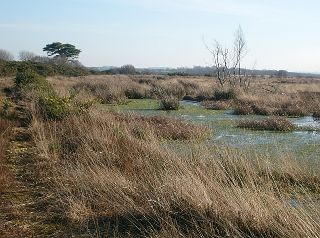 Drumburgh Moss National Nature Reserve One of the last remaining raised mires, or peat bogs, on the Solway Plain. The site is owned and managed by Cumbria Wildlife Trust.